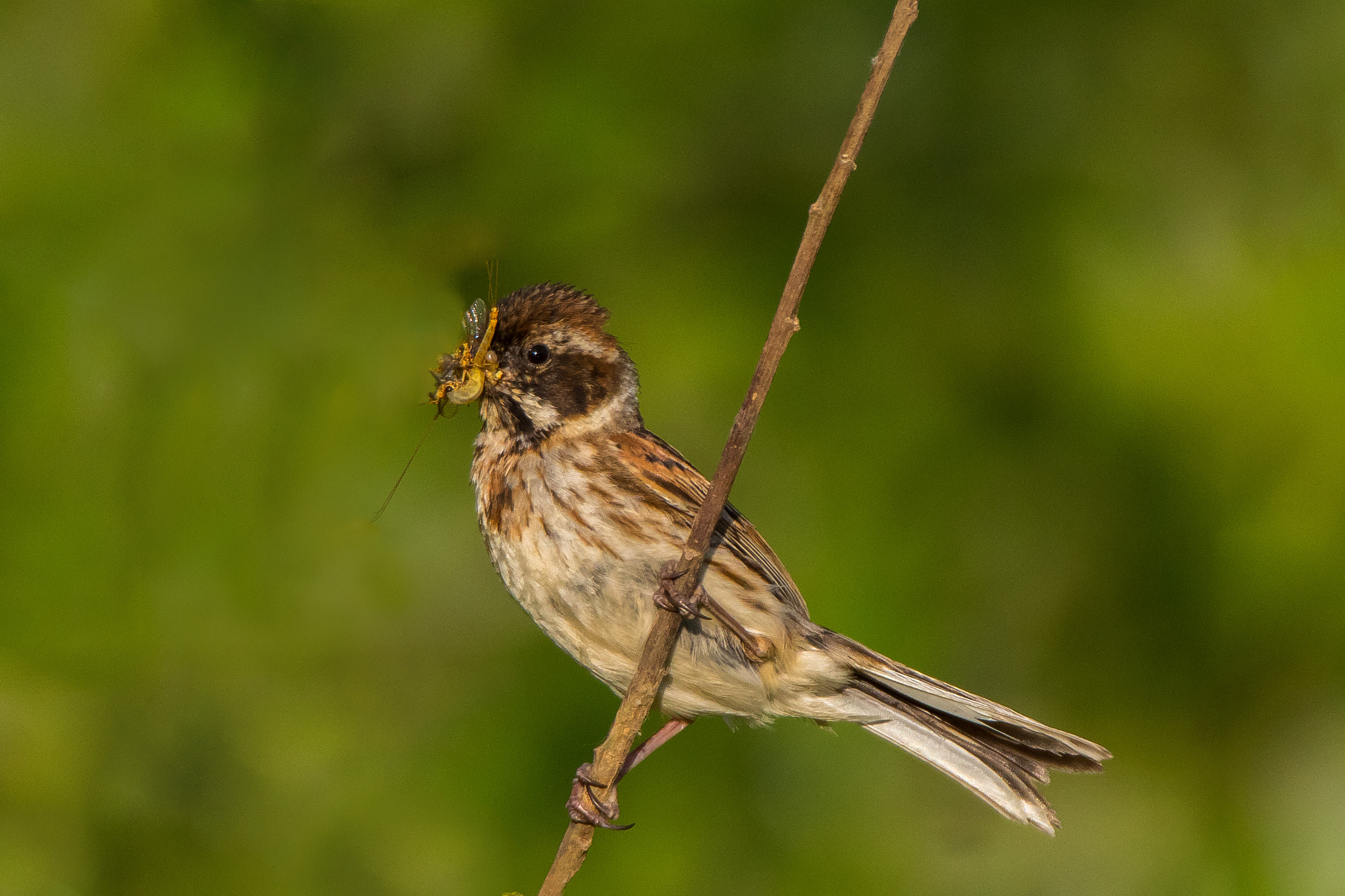 female Common reed bunting in breeding plumage